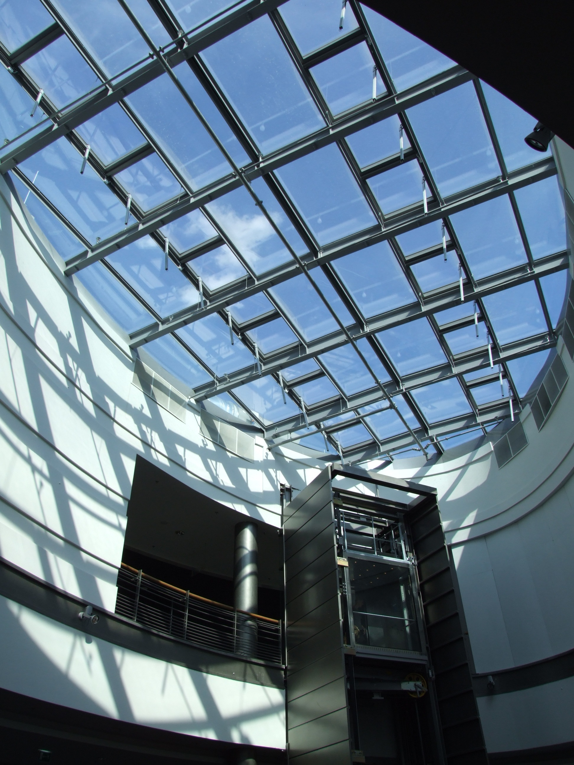 Solaris Center in Opole (Oppeln) - roof